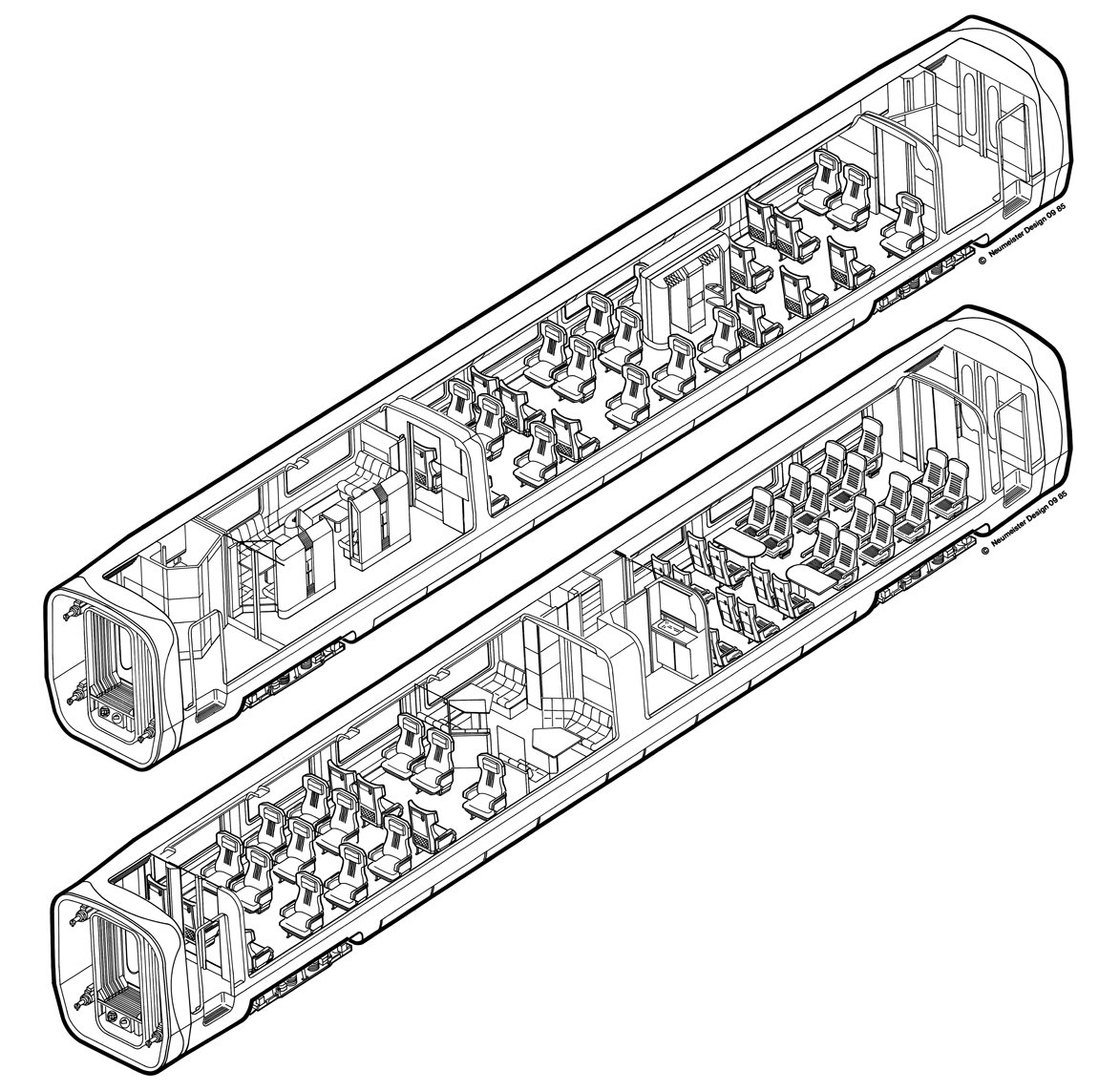 Sectional view of the two demonstration coaches of the InterCityExperimental. The upper car was one of the two that had been ordered in the first place (along with a monitoring car). The lower one was ordered by Deutsche Bundesbahn at a later stage. In an attempt to maximize space, it had a twin lavatory in its center.